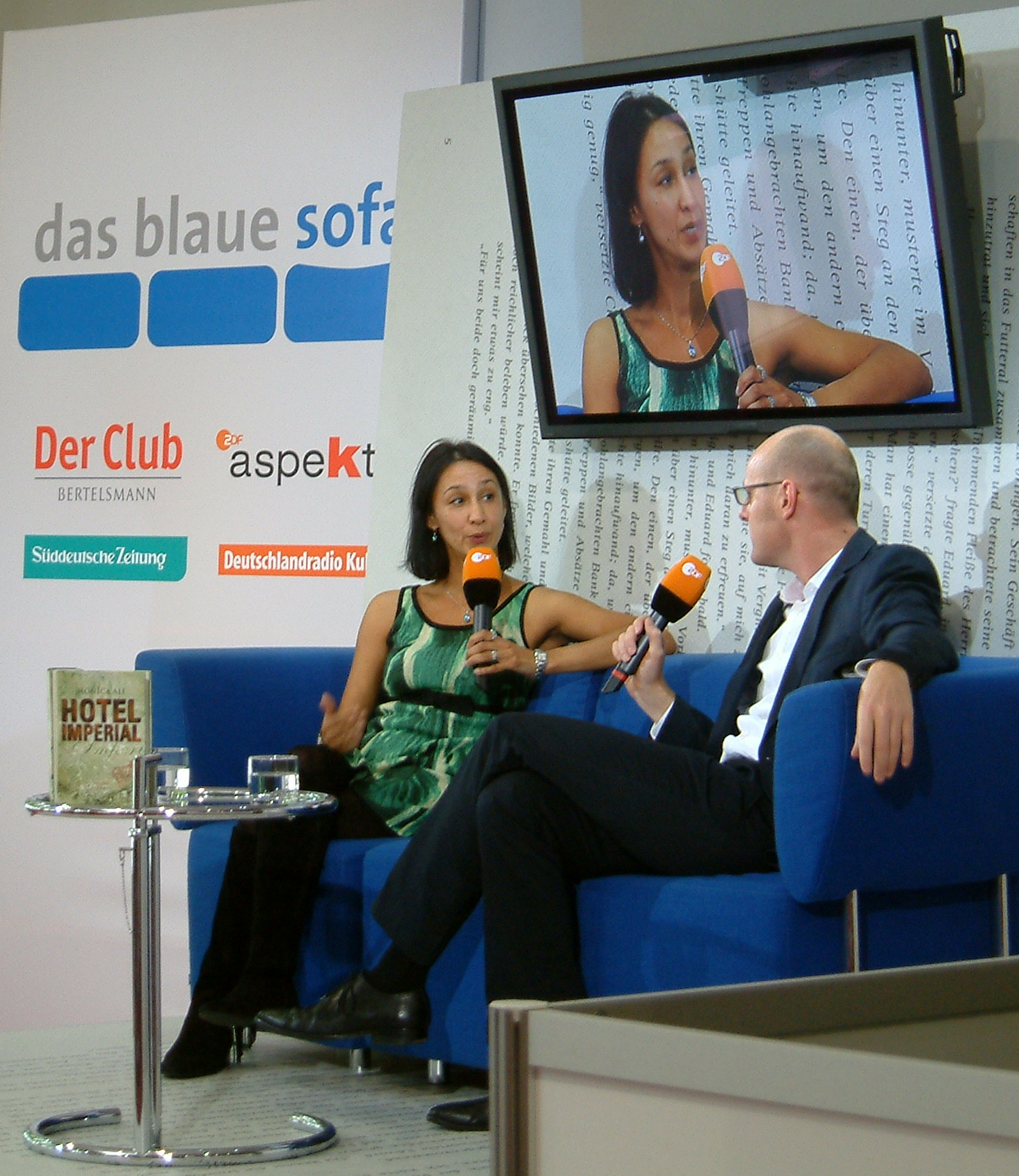 The british author Monica Ali at the Frankfurt Book Fair 2009.